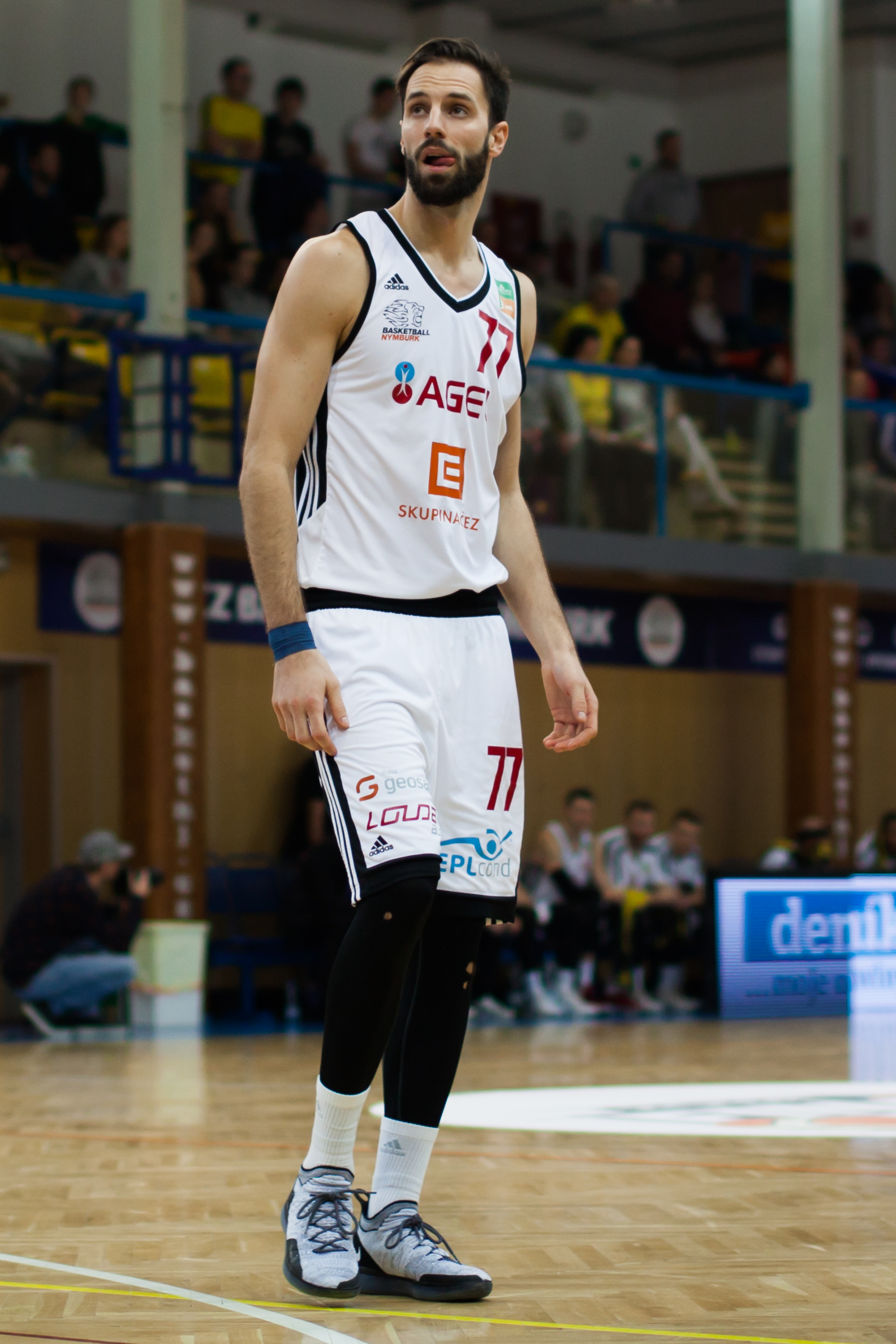 Vojtěch Hruban at final match of Czech basketball cup Hyundai Final4 between clubs BK Opava-ČEZ Basketball Nymburk (Nový Jičín, 10 February 2019)